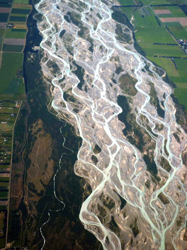 Aerial close-up view of the Rakaia River, a braided river in Canterbury, South Island, New Zealand.